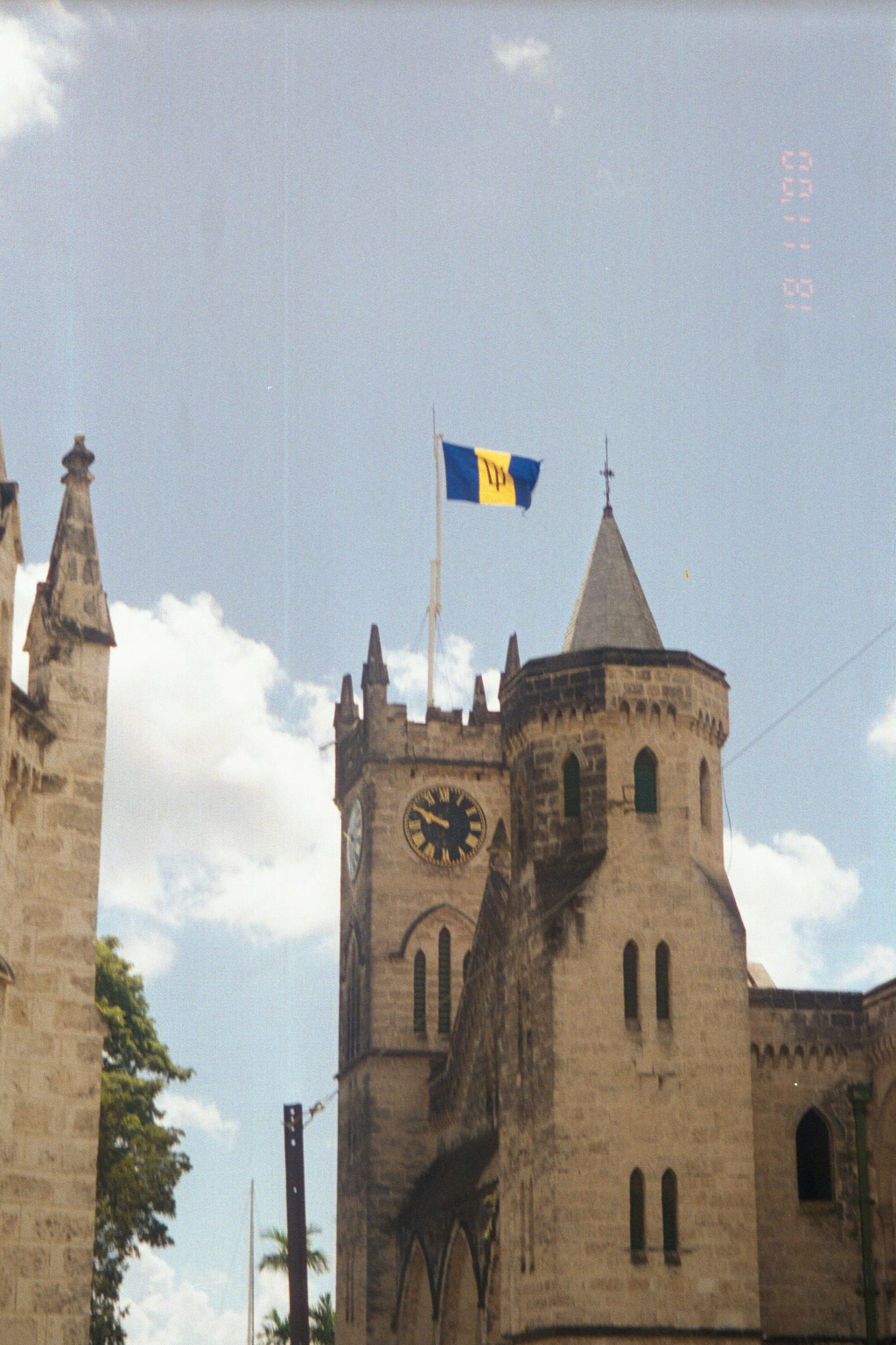 Parliament of Barbados as viewed from the rear.